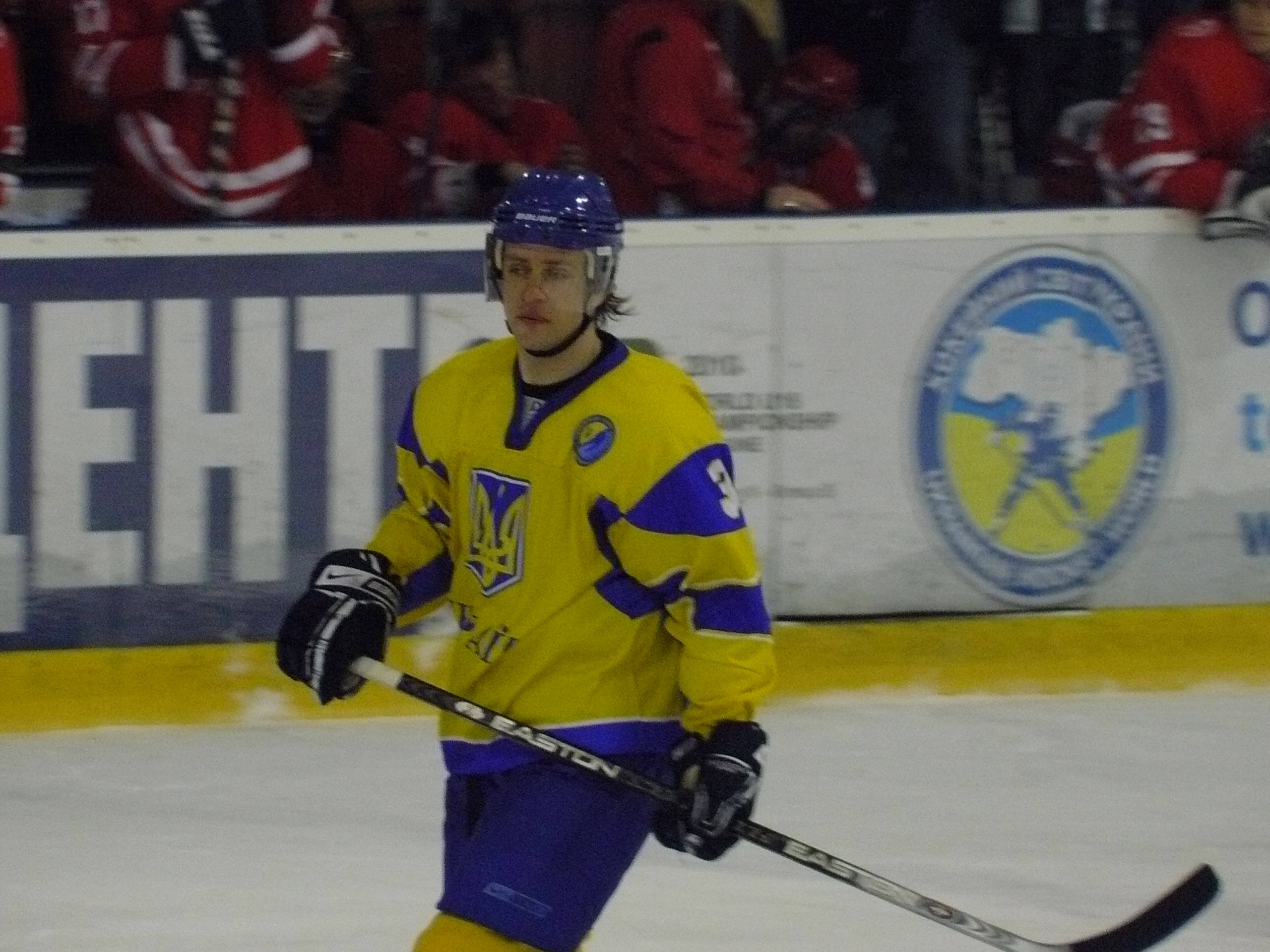 Defender Serhiy Klymentiev #3 of the Ukraine during the friendly game against the Poland on April 10, 2010 at the Terminal Arena in Brovary, Ukraine. Ukraine won the game 2:1.